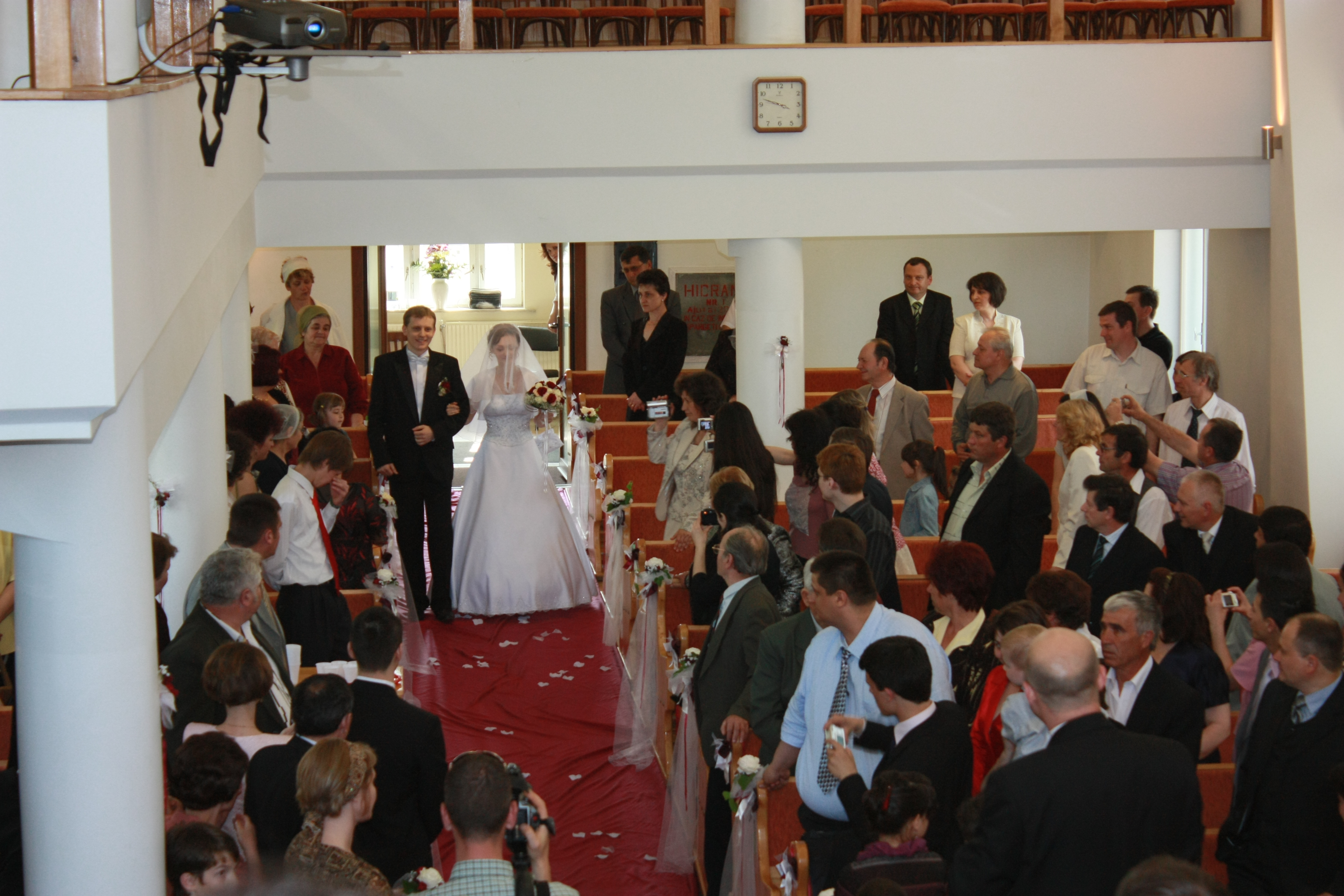 Wedding at First Baptist Church of Iasi - Buna Vestire